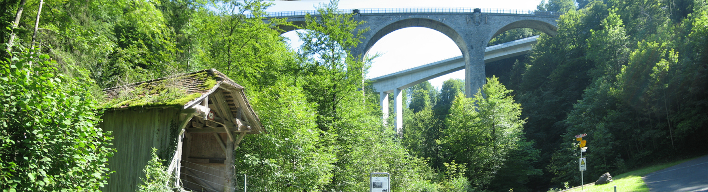 Bridges over the Lorze in Zug, Switzerland